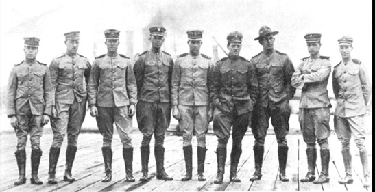 By March of 1914 the U.S. Navy had established a flying school at Pensacola, Florida. Among the commissioned officers taking the course that year were the above (left to right); Lieutenant Victor D. Herbster, Lieutenant W. M. McIlvain, Lieutenant Patrick N. L. Bellinger, Lieutenant R. C. Saufley, Lieutenant John H. Towers, Lieutenant Commander Henry C. Mustin, Lieutenant (Marines) Bernard L. Smith, Ensign Godfrey de Chevalier, and Ensign M. L. Stolz.